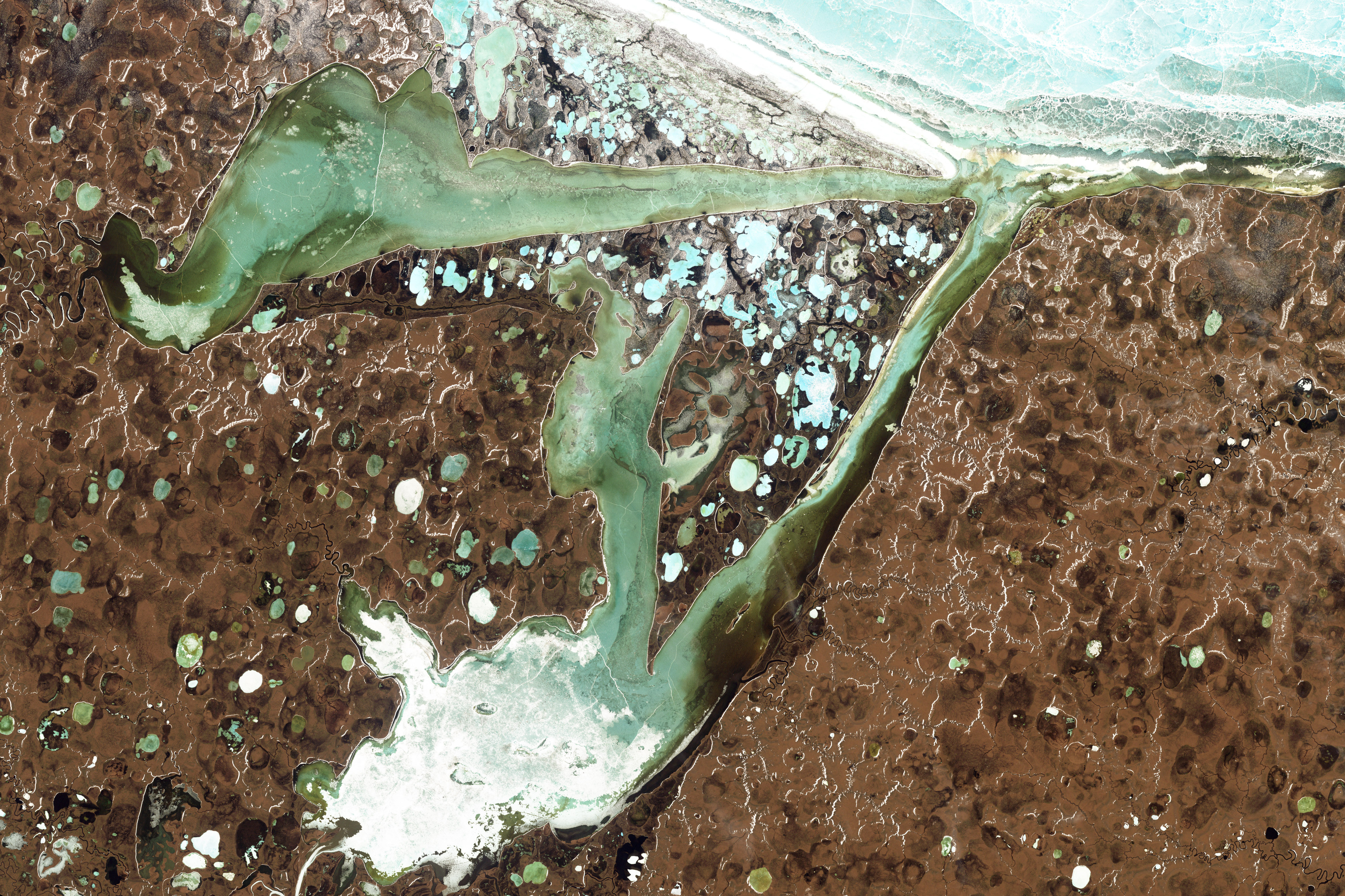 Natural-colour image of the Omulyakhskaya and Khromskaya Bays, Russia. The land around the bays is dotted with thermokarst lakes, which result from water released by thawing permafrost. The water in a thermokarst lake doesn’t always stay put; these lakes can melt through the surrounding permafrost and drain into a nearby water body, especially if it sits at a slightly lower elevation. This appears to have occurred in multiple lakes between the bays shown above. (The compound lakes are identifiable by their uneven margins.) Coastal erosion and river migration also can deplete the lakes. Dark brown spots, especially numerous east of Khromskaya Bay, are probably locations of former thermokarst lakes.Image captured by the Thematic Mapper on the Landsat 5 satellite. Landsat data provided by the United States Geological Survey.